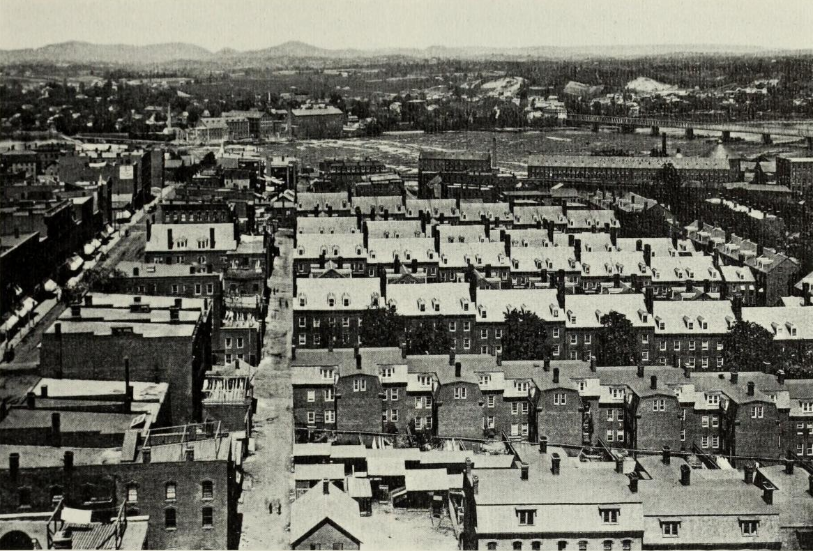 The worker housing of Lyman Mills in the late 19th century, as seen from the clock tower of Holyoke City Hall. The site would be razed in the 1930s to make way for the Lyman Terrace housing project.